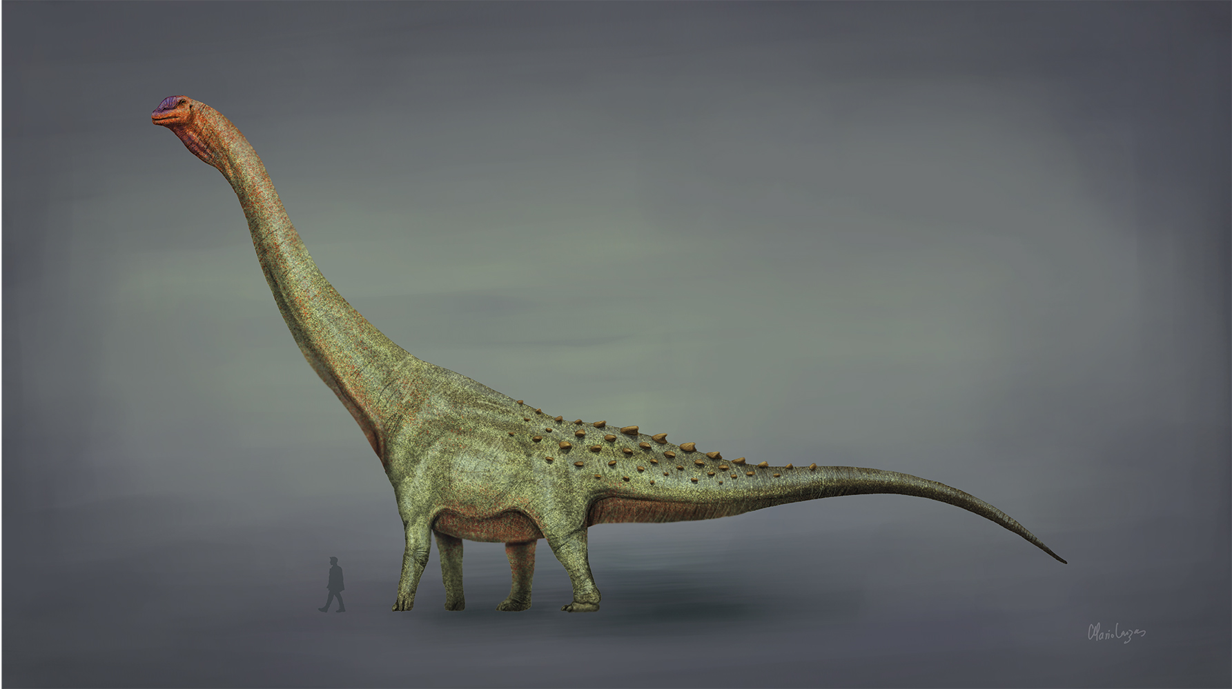 Patagotitan restoration 2019 by Mario Lanzas